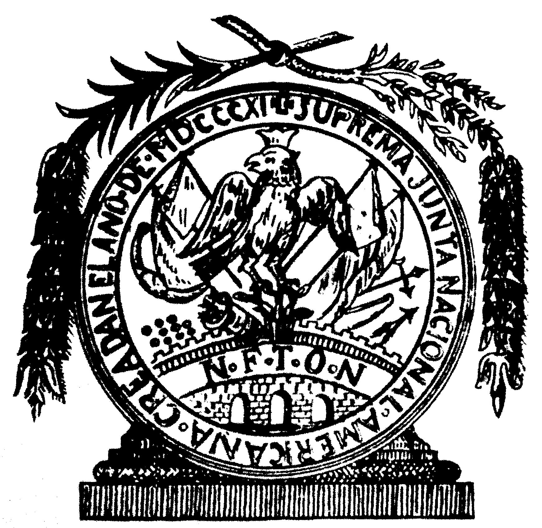 Seal and official seal of the General Meeting of America, 1811, based on that found in the book Insurgency and Federal Republic from 1808 to 1824. Ernesto Lemoine, Ed Miguel Angel Porrua. Year 1995. ISBN. 968-842-582-6.